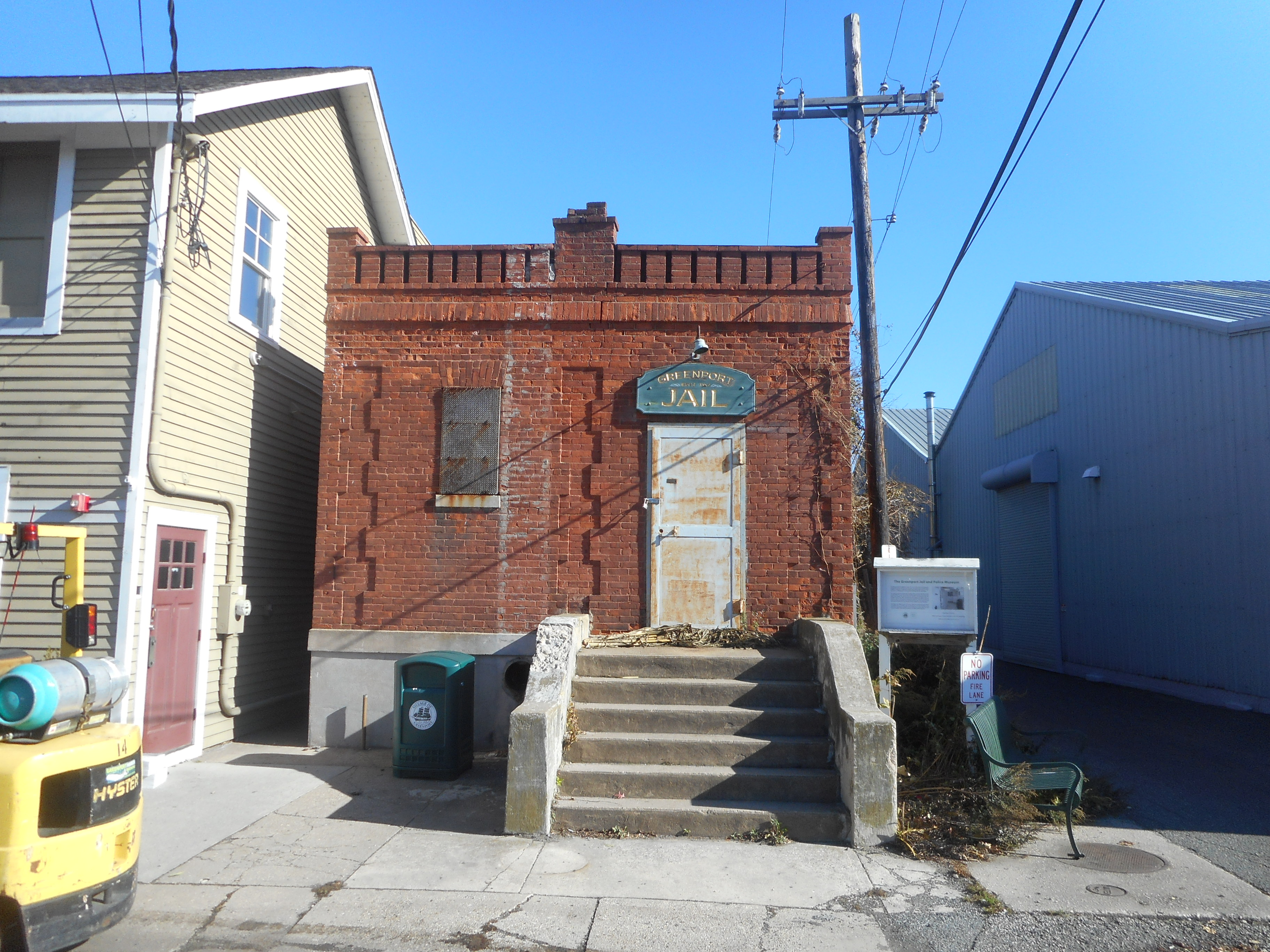 The Old Greenport Jail and Police Museum on Carpenter Street next door to the Greenport Harbor Brewing Company in the Village of Greenport, New York. The museum is a former police station and jail owned by the former Village of Greenport Police, which was disbanded in 1995.